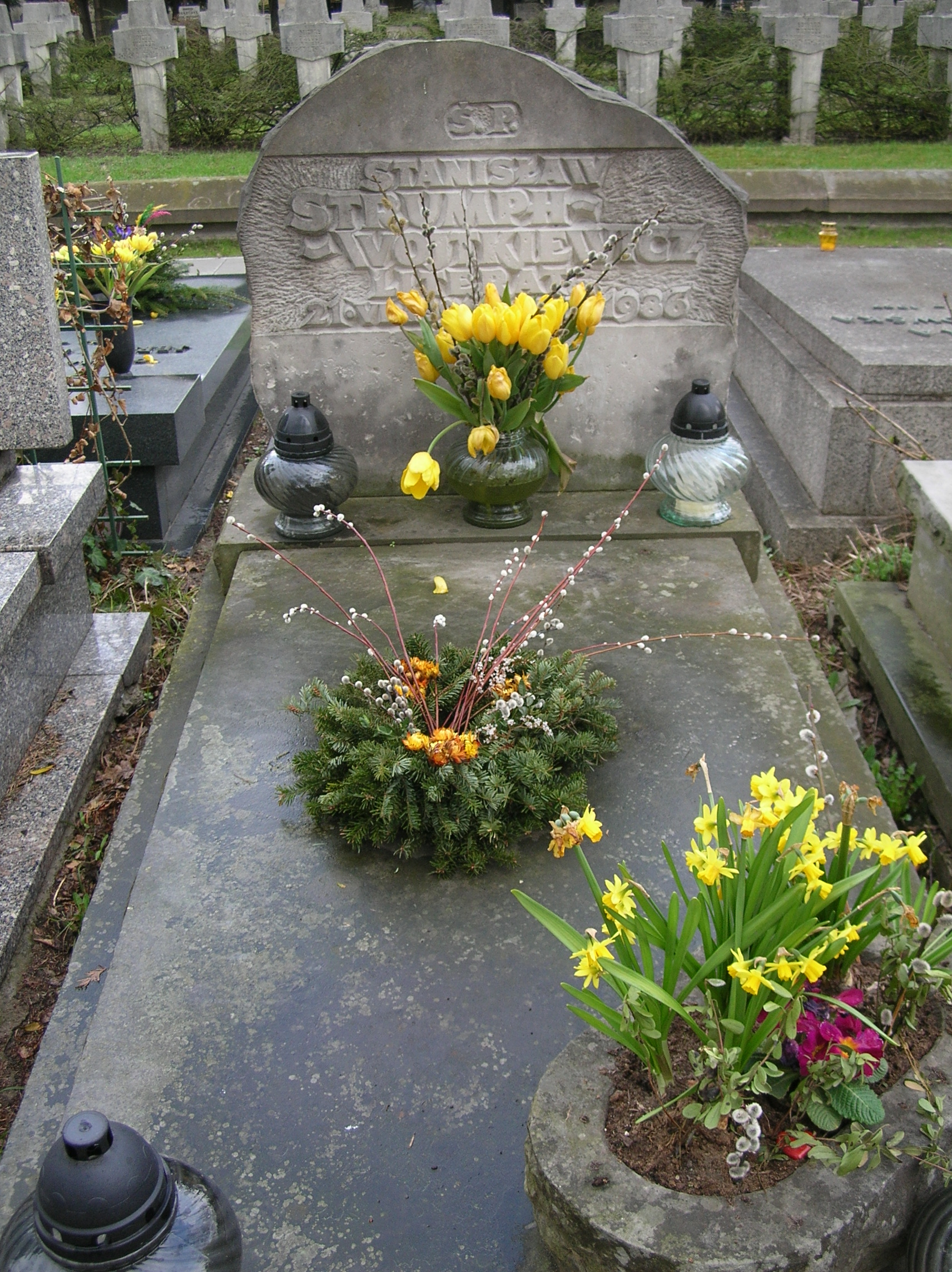 Tomb of Stanisław Strumph-Wojtkiewicz